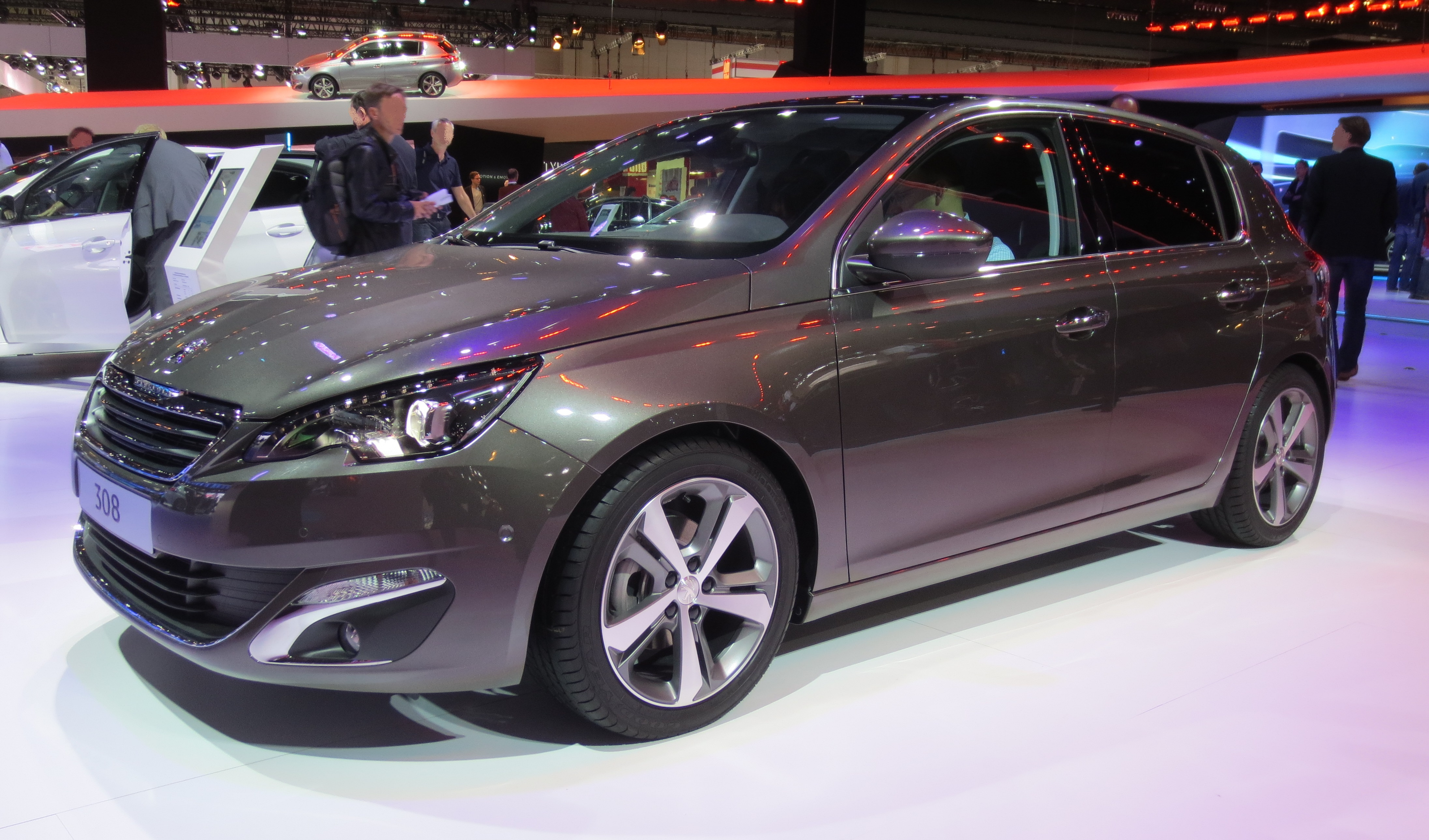 Subject: Peugeot 308 Mk2 Author: Luc106 Date:September 17th, 2013 Event: IAA 2013 Place/Country: Frankfurt Messe, Frankfurt am Main (Germany) I release all rights in the public domain.